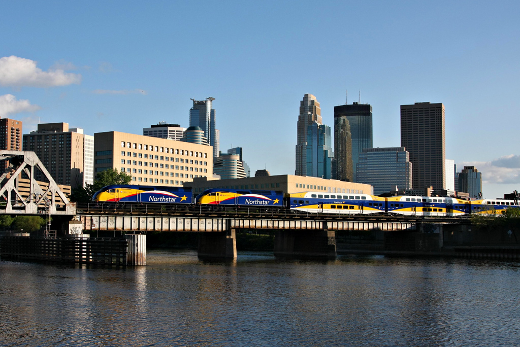 Northstar train 1935, Minneapolis, Minn.